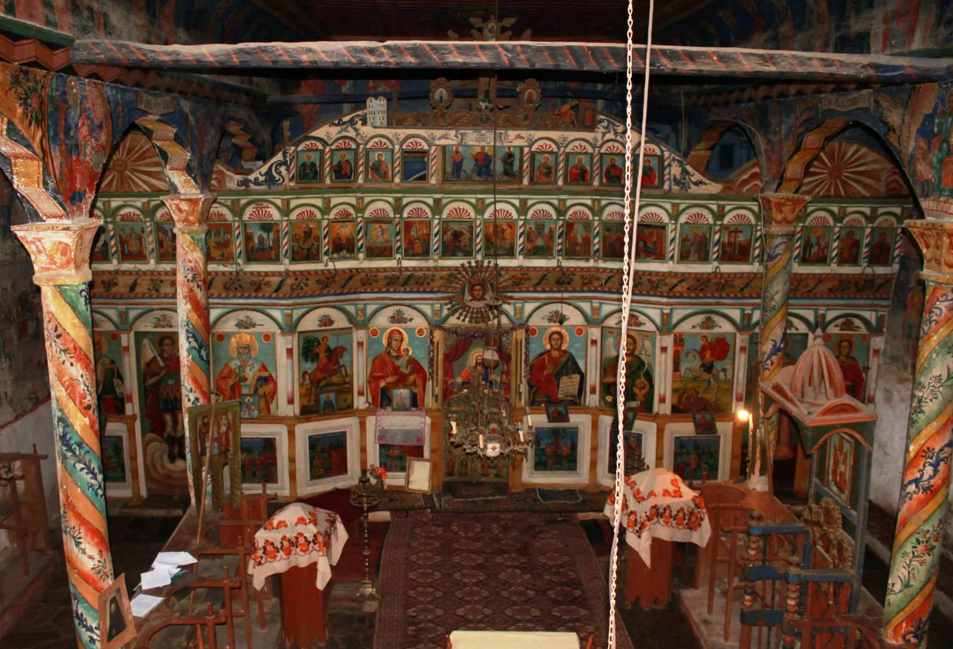 Interior of the church "St. Dimitar" in the village Palat, Bulgaria